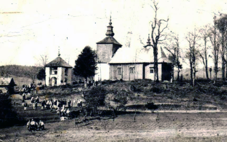 Church of Michael (1856) in the village of Bal`netsia (Balnica), dismantled in the 1950's.